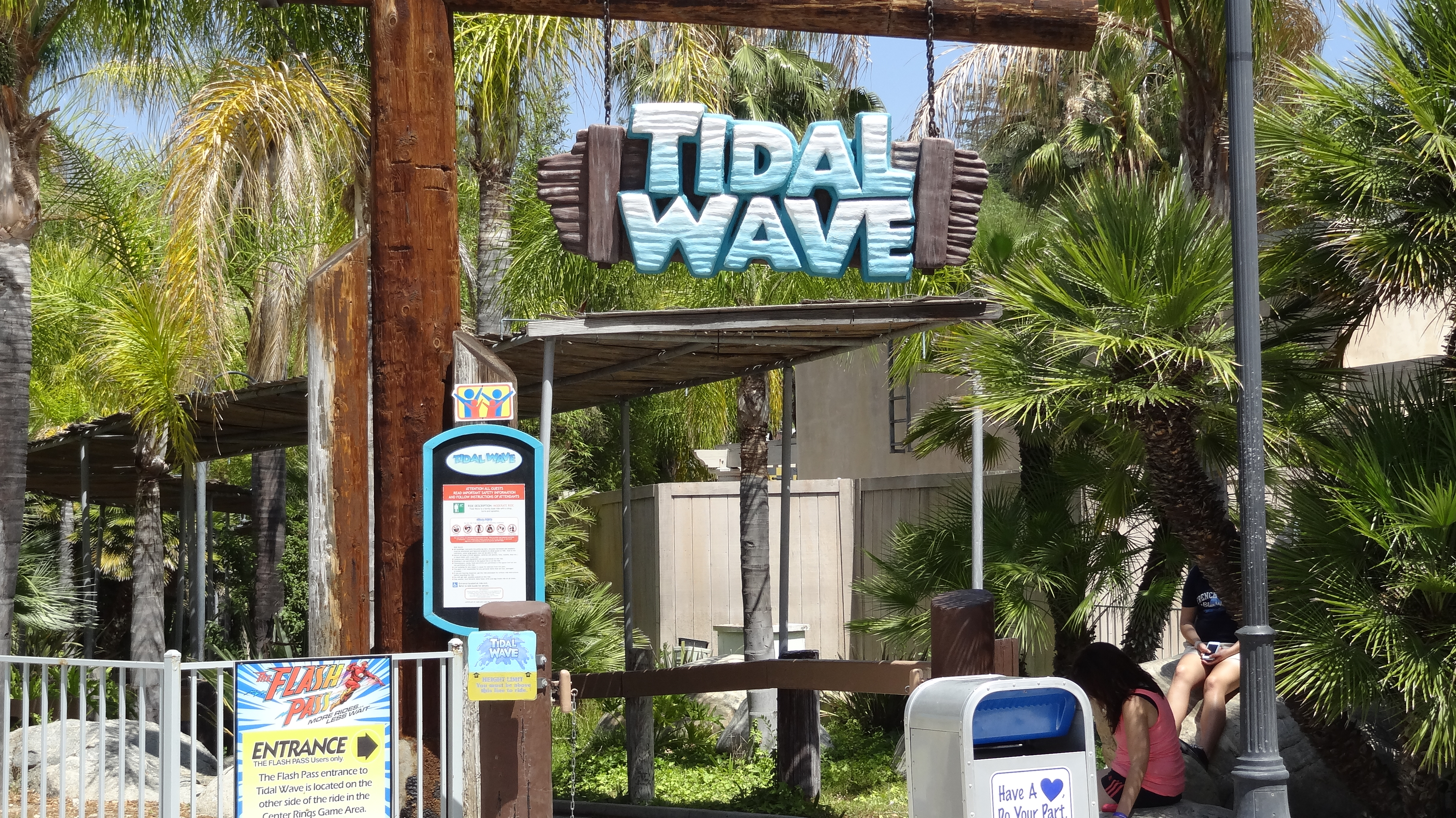 Entrance to Tidal Wave.